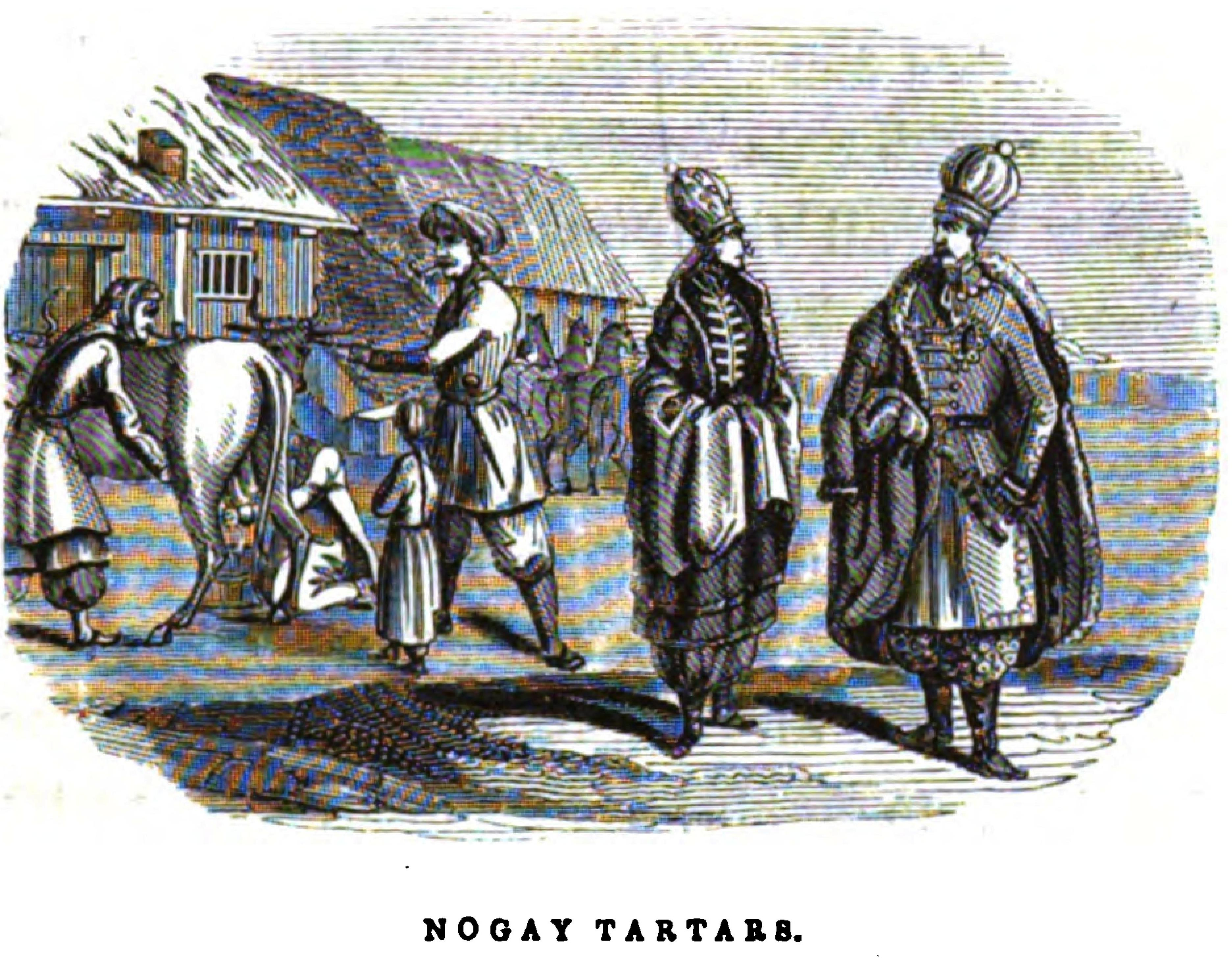 Edmund Spencer, Travels in Circassia, Krim-Tartary &c: including a steam voyage down the Danube from Vienna to Constantinople, and round the Black sea